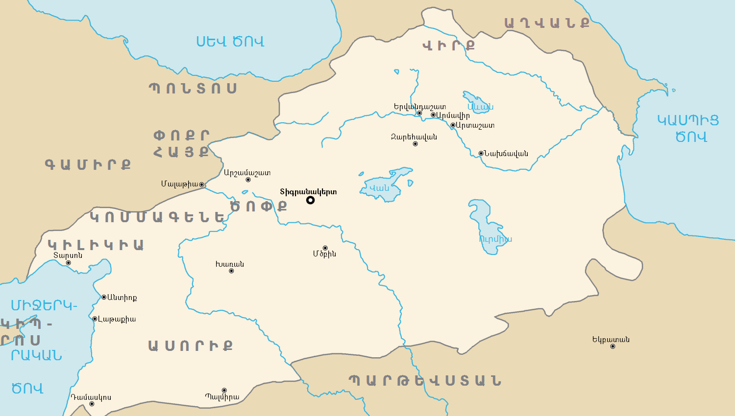 1/3 of the map of the Tigranes the Great's Armenia